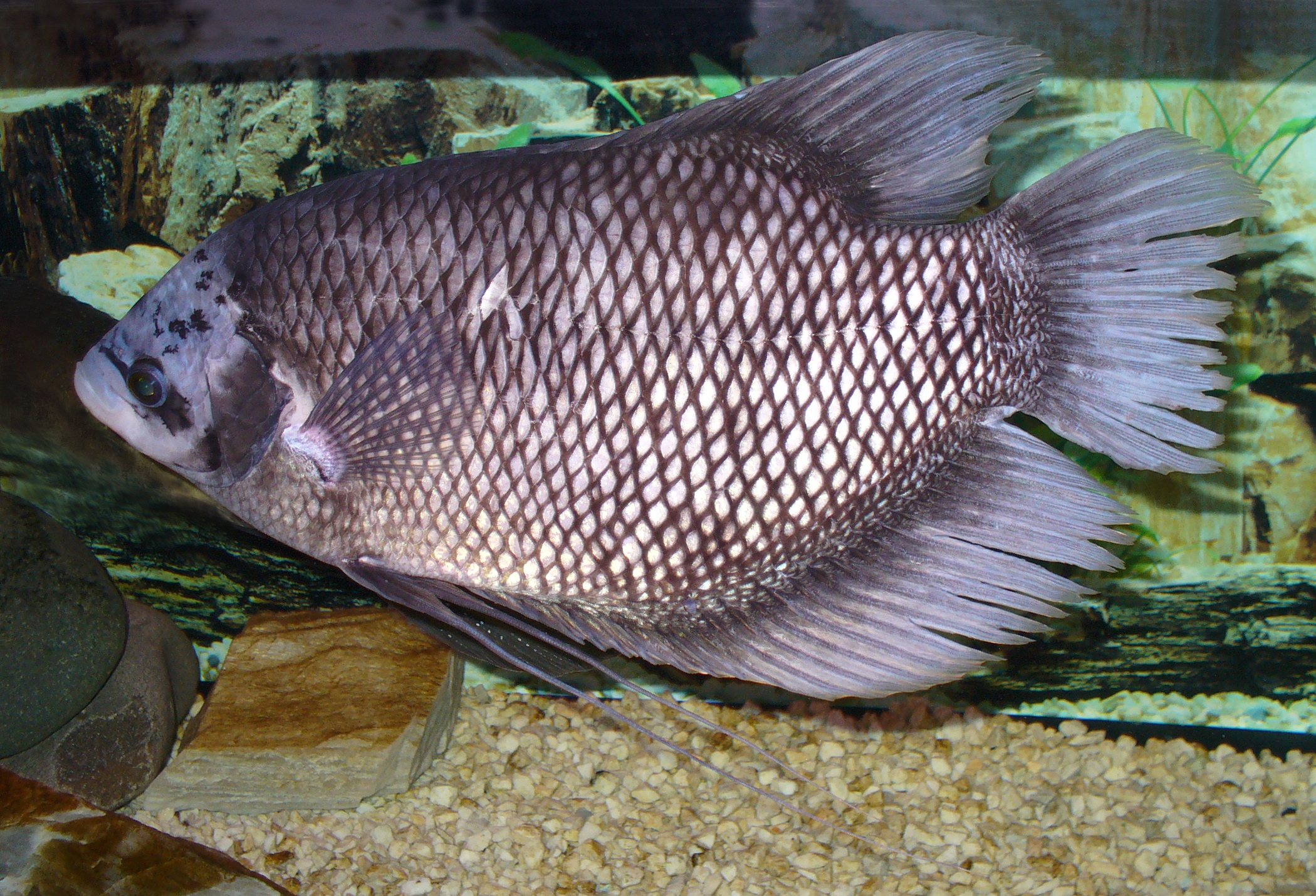 Giant gourami (Osphronemus goramy)